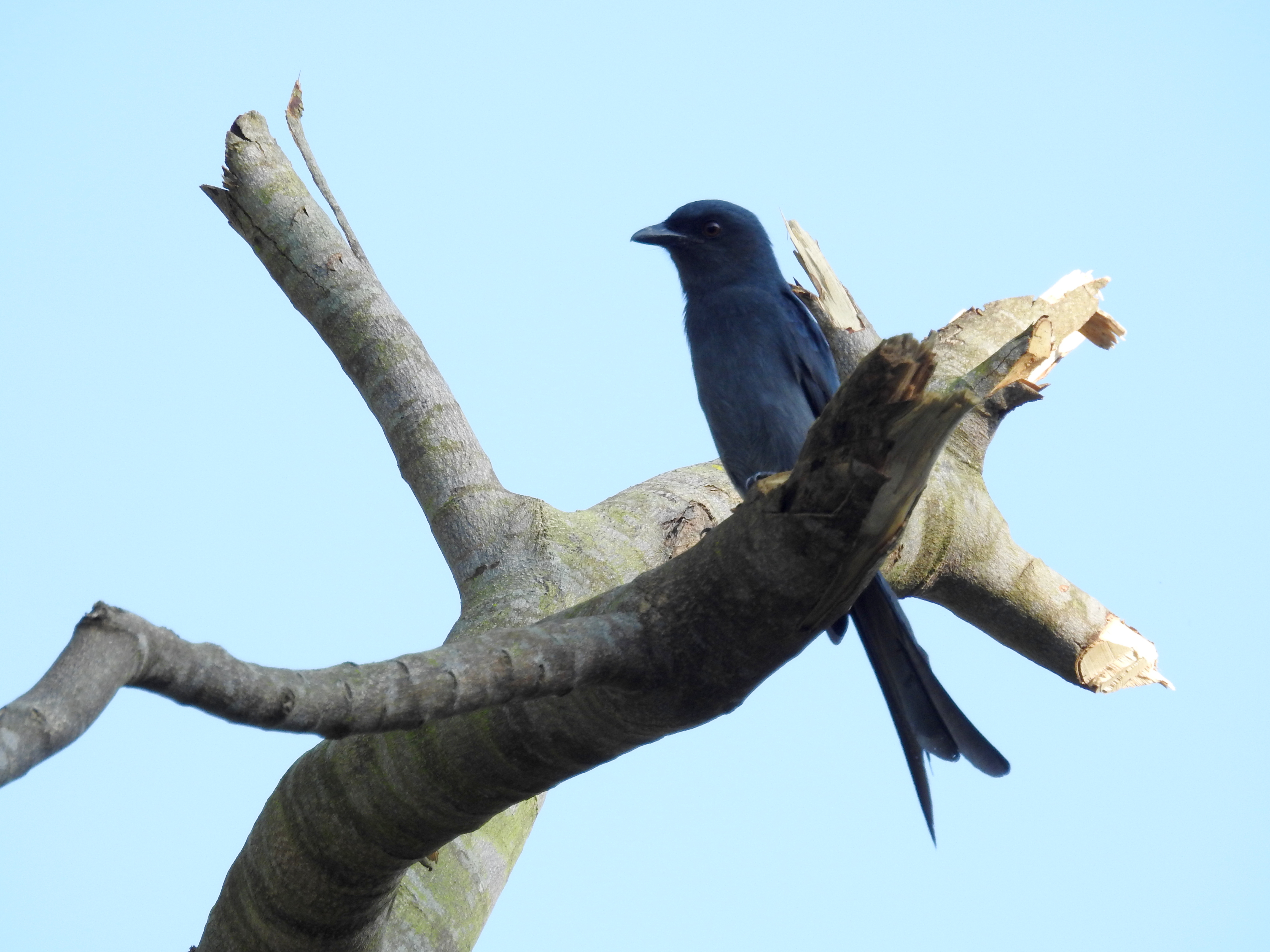 Ashy Drongo in Mizoram University campus near Aizawl, Mizoram, India